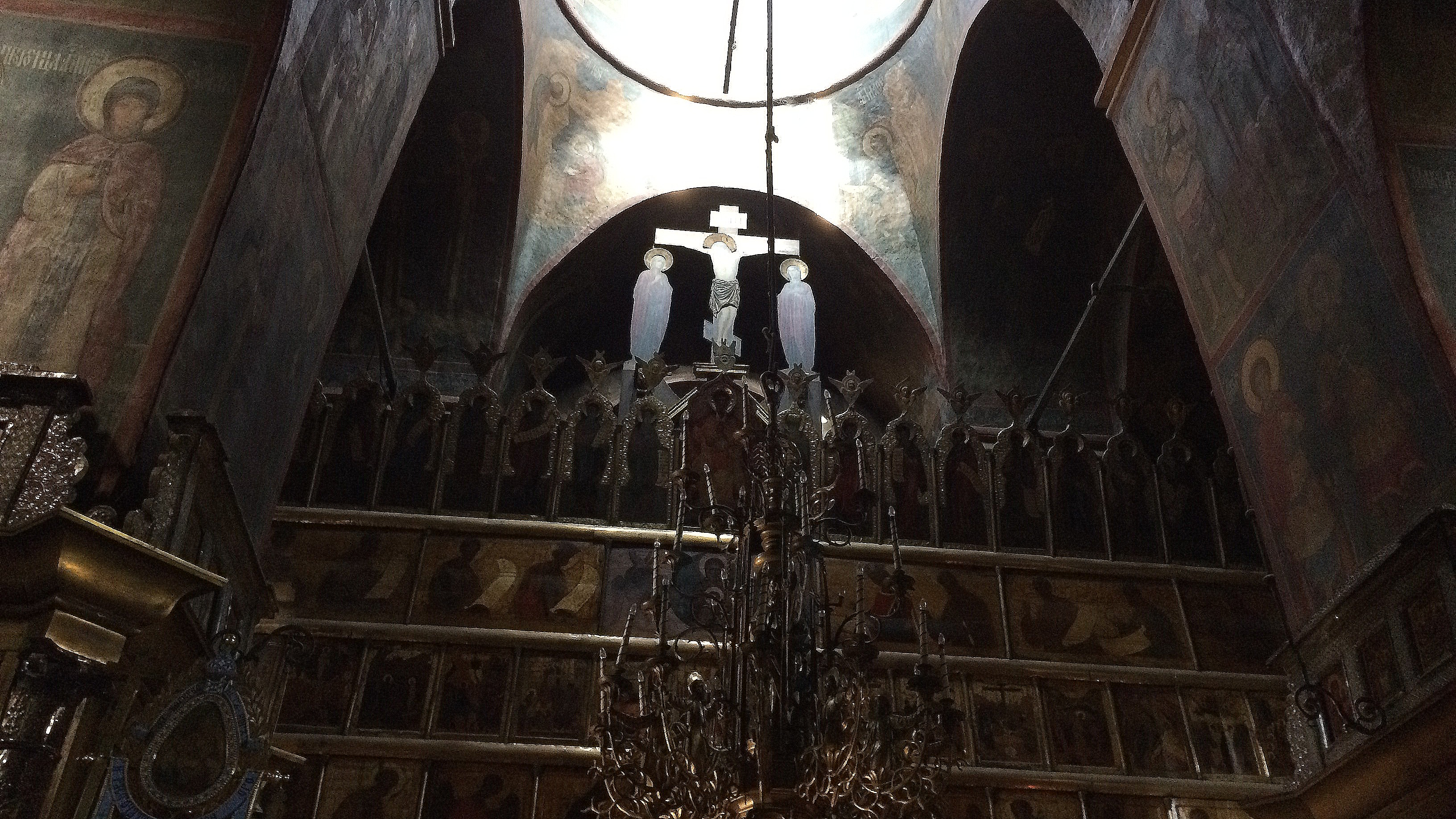 Holy Trinity Church in the Monastery of Sergijev Posad